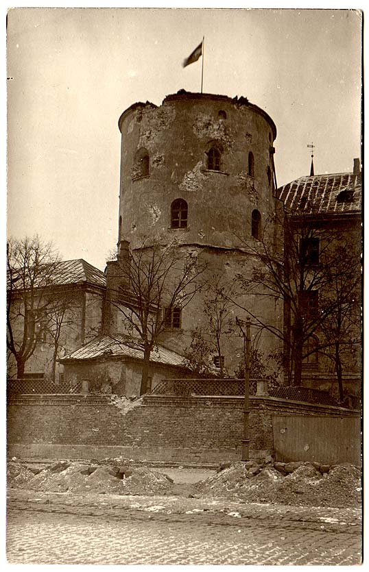 Riga Castle, 1919, after heavy shelling during the Latvian Civil War.